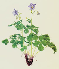 According to IUCN/SSC specialists this is one of the most endangered species of island floras in the Mediterranean area.